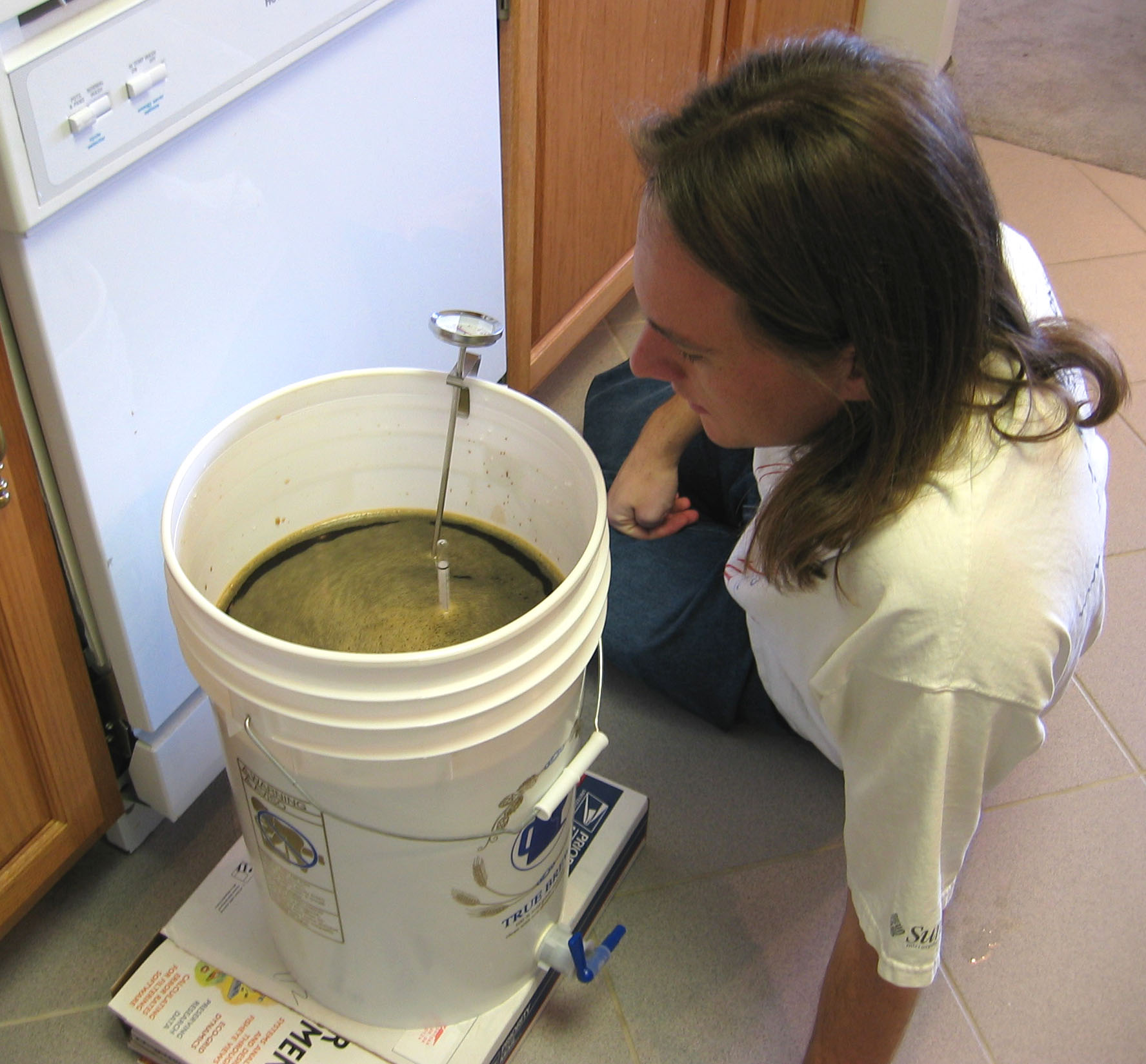 Checking the specific gravity of a batch of homebrew beer.